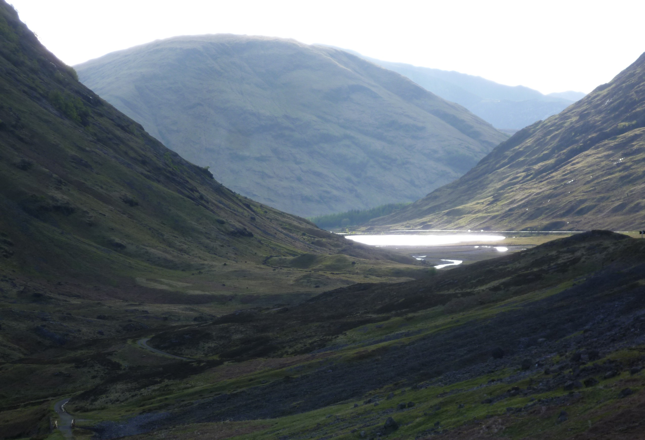 Pass of Glencoe looking towards Loch Achtriochtan